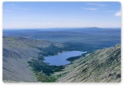 Aerial view of lake in Sokhondo Nature Reserve